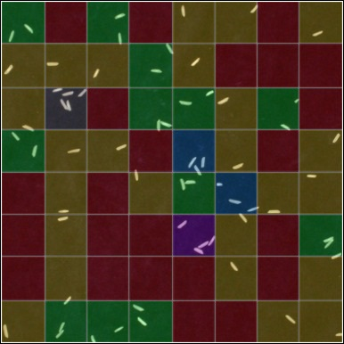 64 randomly scattered rice grains on an 8 by 8 grid, squares coloured according to the number of grains on them.